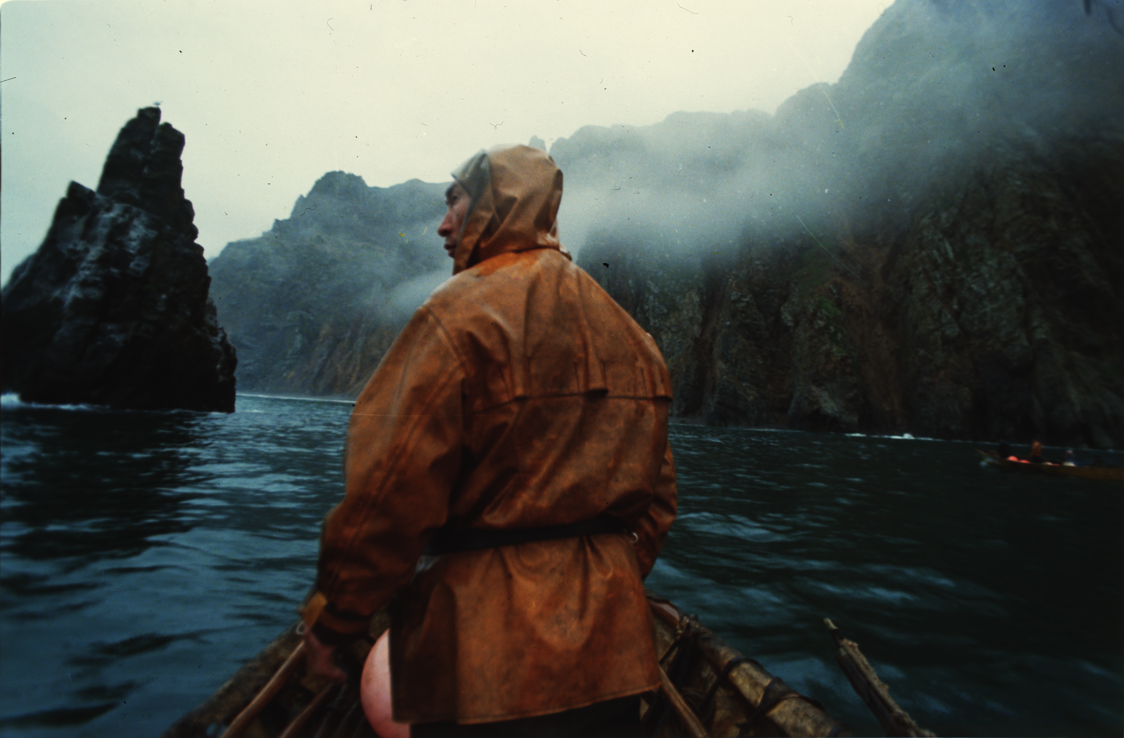 'The people of Chukotka': Walrus hunters on the Chukchi Peninsula. Victor Zagumyonnov made this story as a member of the expedition of the Institute of Ethnography of the USSR Academy of Sciences. He spent one month and a half in Chukotka and Kamchatka. World Press Photo 1982 Photo Contest, Daily Life, Stories, 3rd prize.